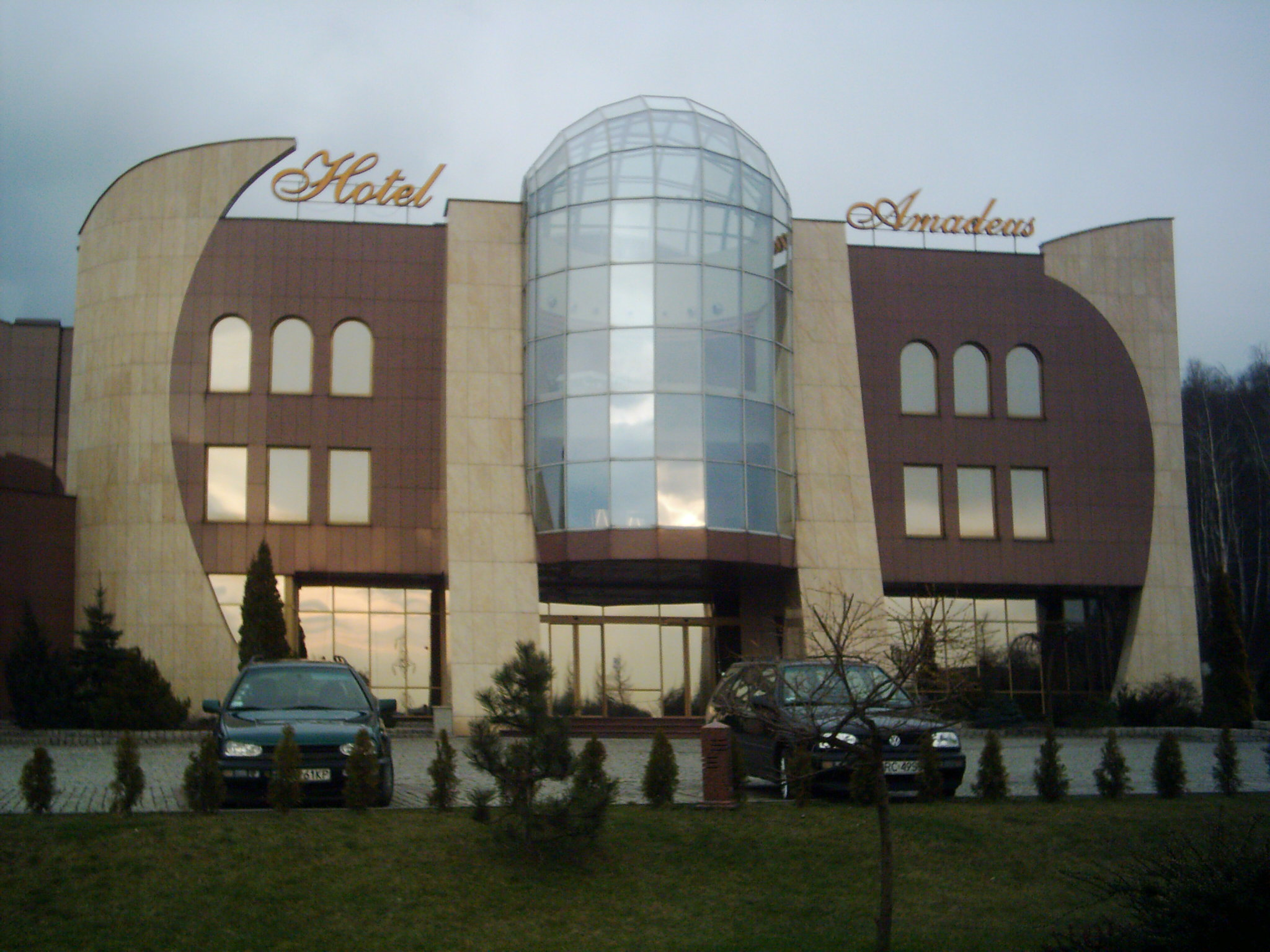 Hotel "Amadeus" in Wodzisław